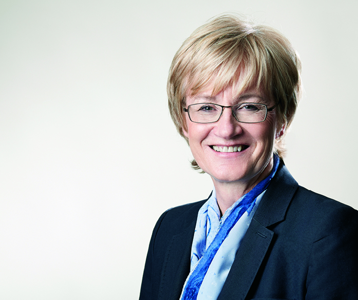 Mady Delvaux-Stehres